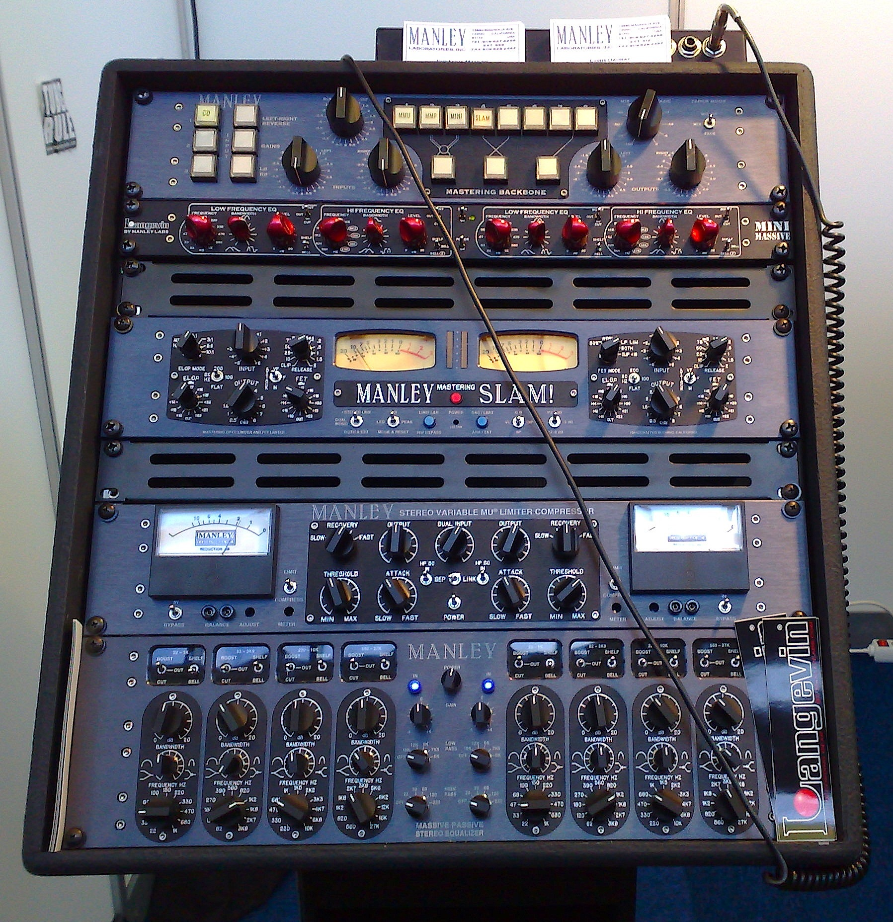 MANLEY Laboratories, Inc. Manley BACKBONE Mastering Insert Switcher Langevin Mini Massive Stereo Equalizer (by Manley Labs) Manley Mastering SLAM Stereo Mastering Limiter Manley Stereo Variable Mu Limiter Compressor Manley Mastering Version Massive Passive EQ Stereo Equalizer Although you can't really tell if you don't listen carefully (which is almost impossible at such events). We audio types tend to drool over hardware and software, but most of that is in our heads, rather than in our ears. In practice, one doesn't need much hardware or software, unless the needs are very specific.